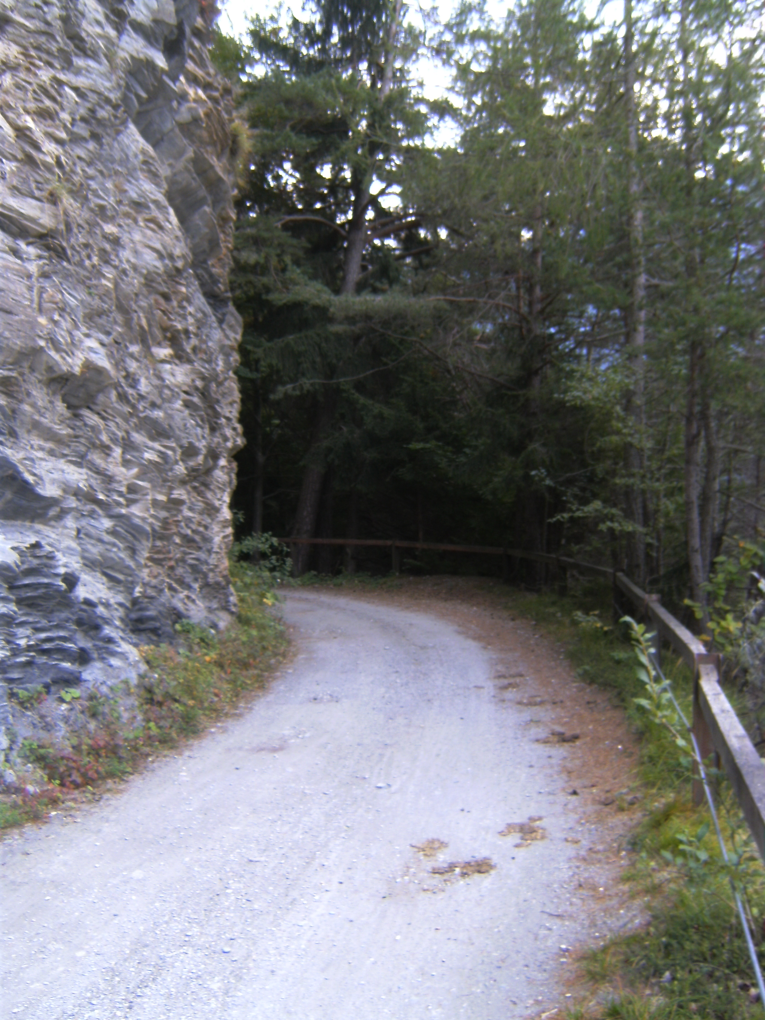 Section of the so-called "Polenweg" (Way of the Polish) in the Hinterrhein Valley in Graubünden, Switzerland